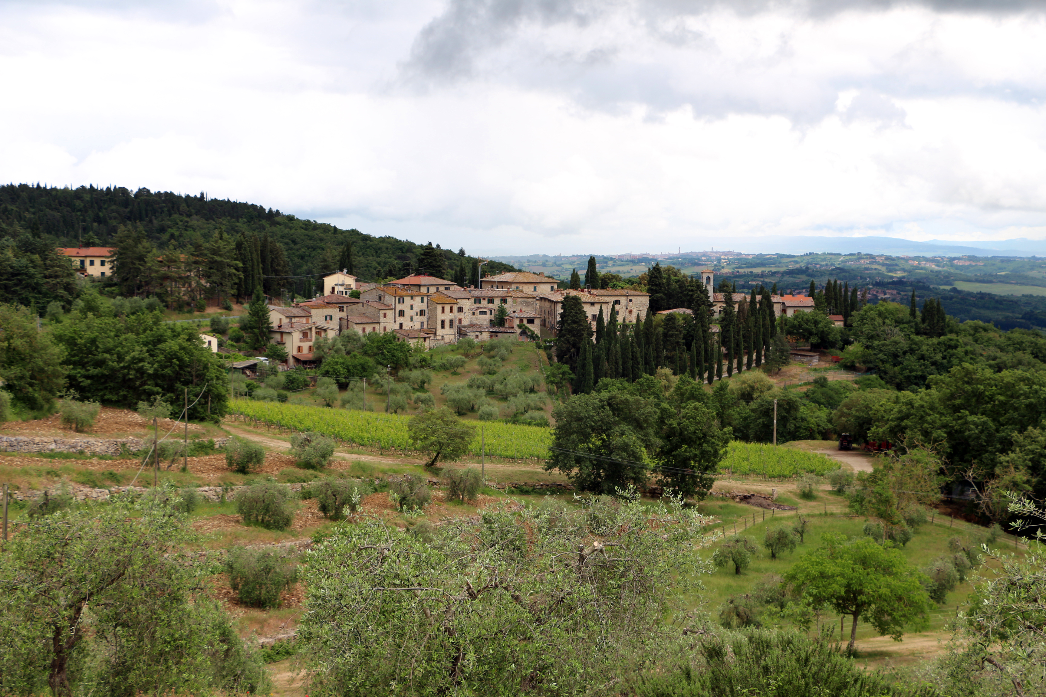 Fonterutoli